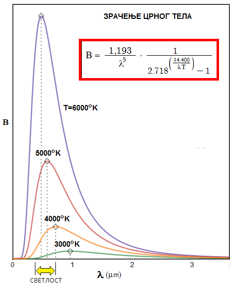 ЗРАЧЕЊЕ ЦРНОГ ТЕЛА